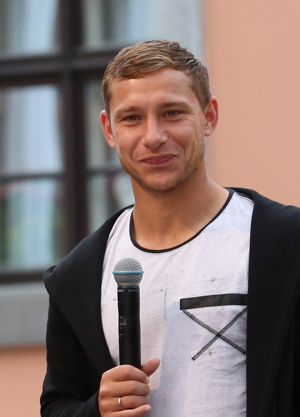 Robert Koch (FSV Zwickau) at the Tag der Sachsen 2017 in Löbau; MDR Sachsen stage at the Altmarkt